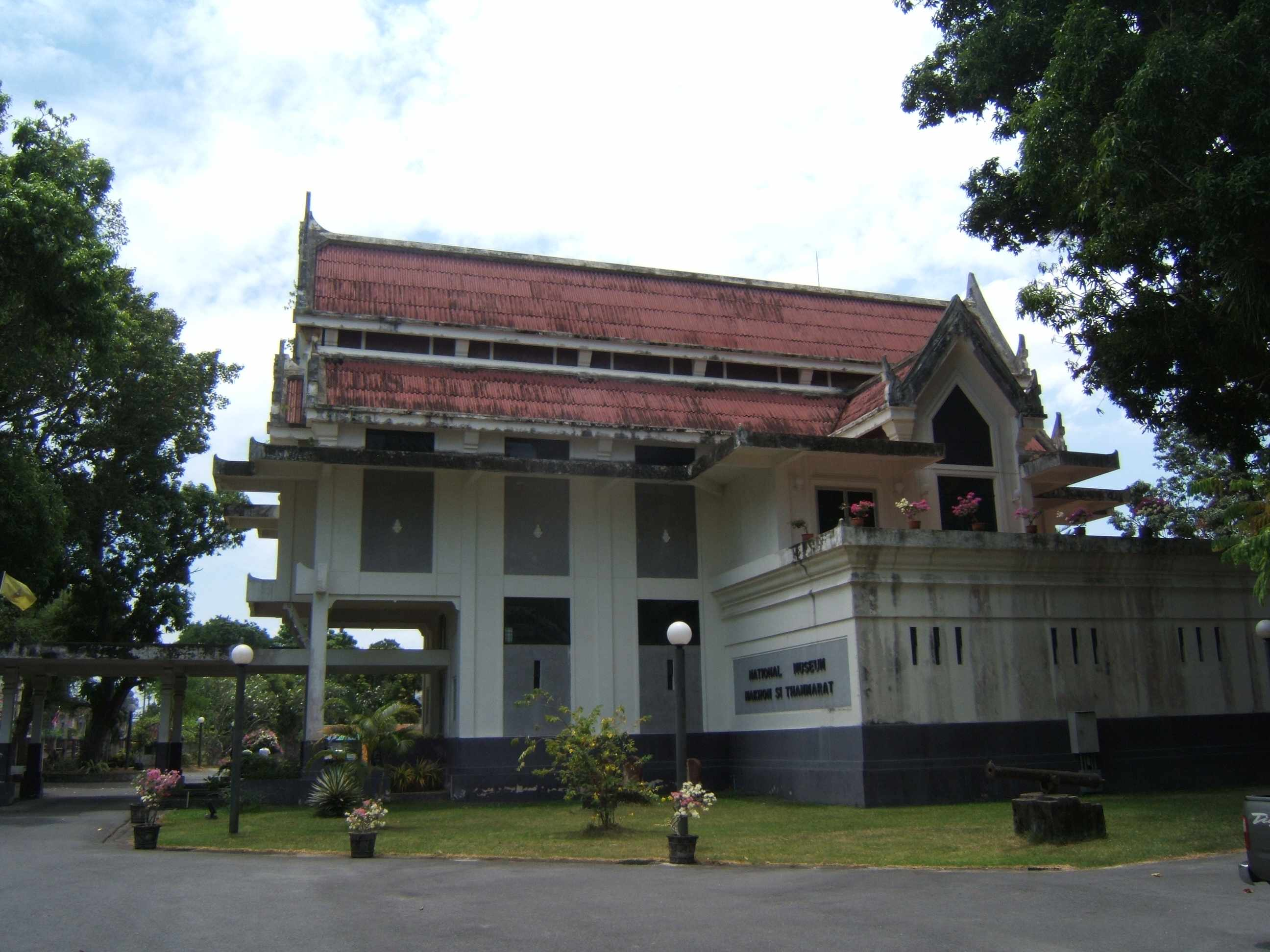 National Museum Building in Nakhon Si Thammarat, Thailand